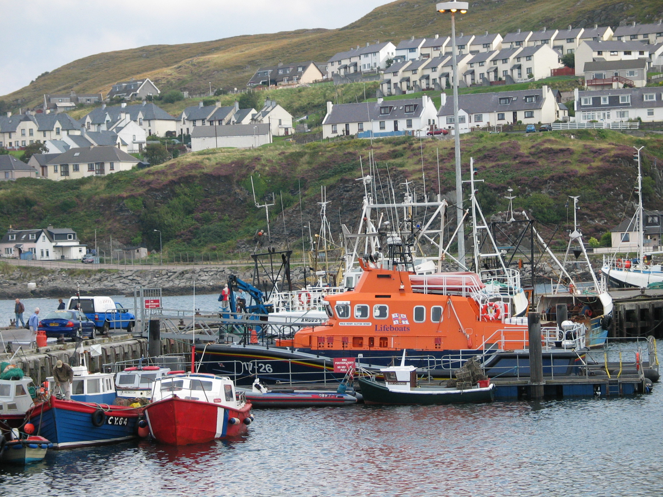 "RNLB Henry Alston Hewat" (17-26) Mallaig, Highlands, Scotland